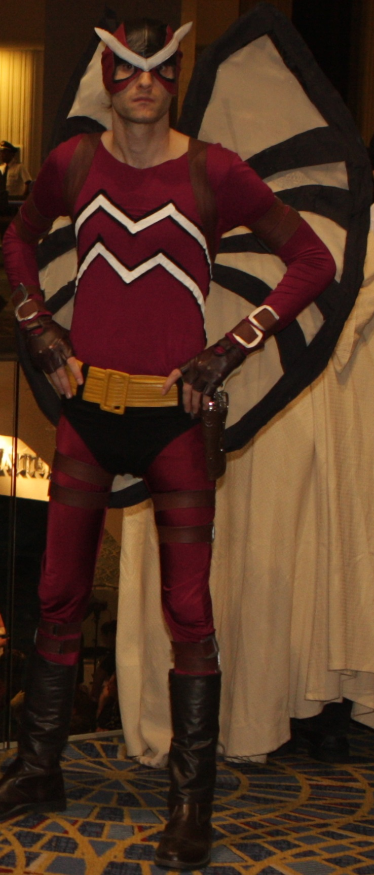 Cropped version of original, cropped to show Mothman.